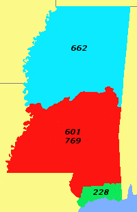 Map showing area codes for the state of Mississippi in 3 colors.